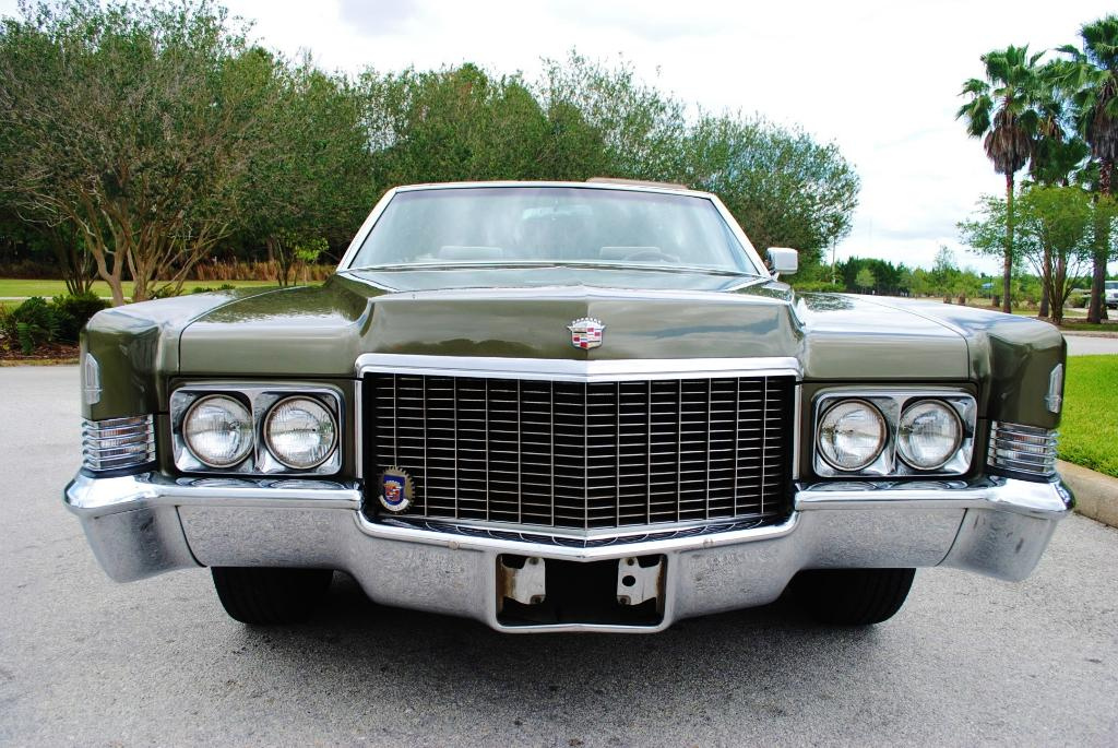 This is a picture of a vehicle (name of it is on the file name).